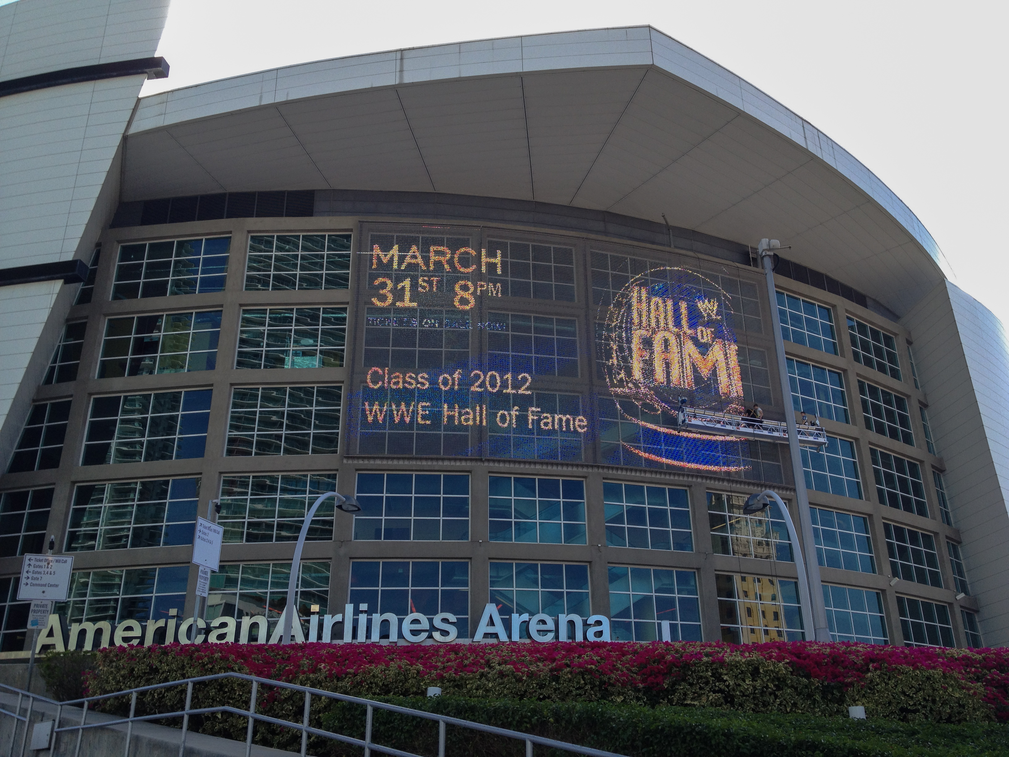 WWE Hall of Fame 2012